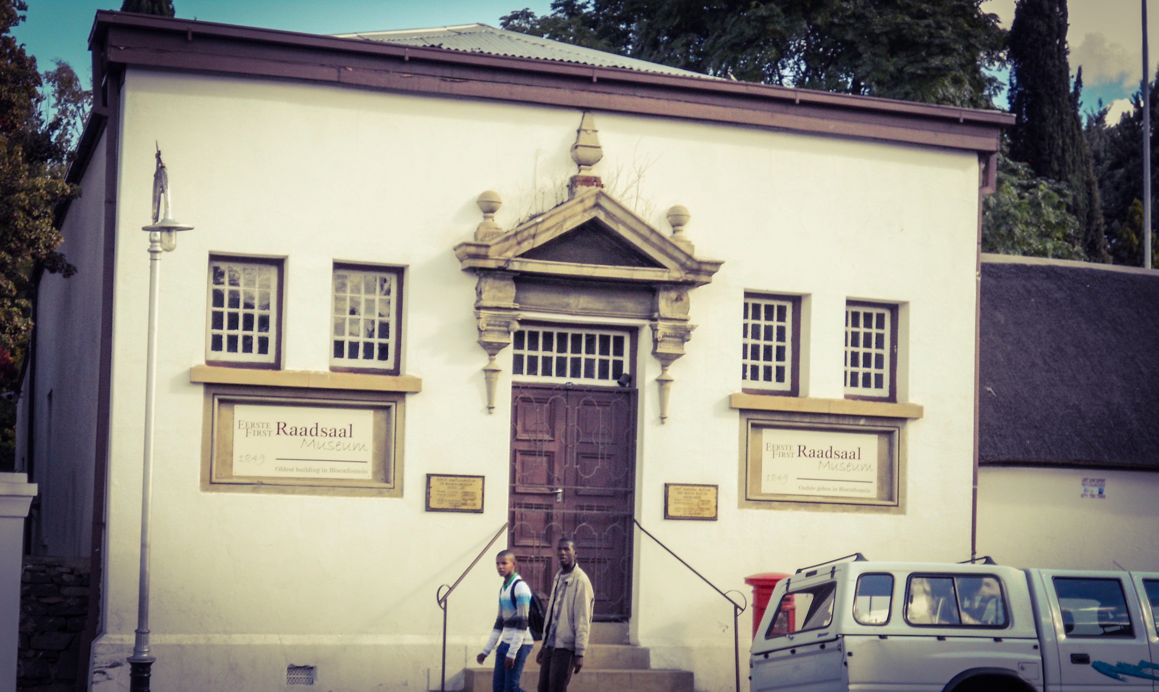 This media shows a South African Protected Site with SAHRA file reference 9/2/302/0036.